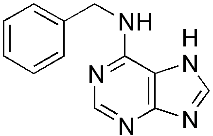 chemical structure of N-benzylaminepurine (benzyladenine)